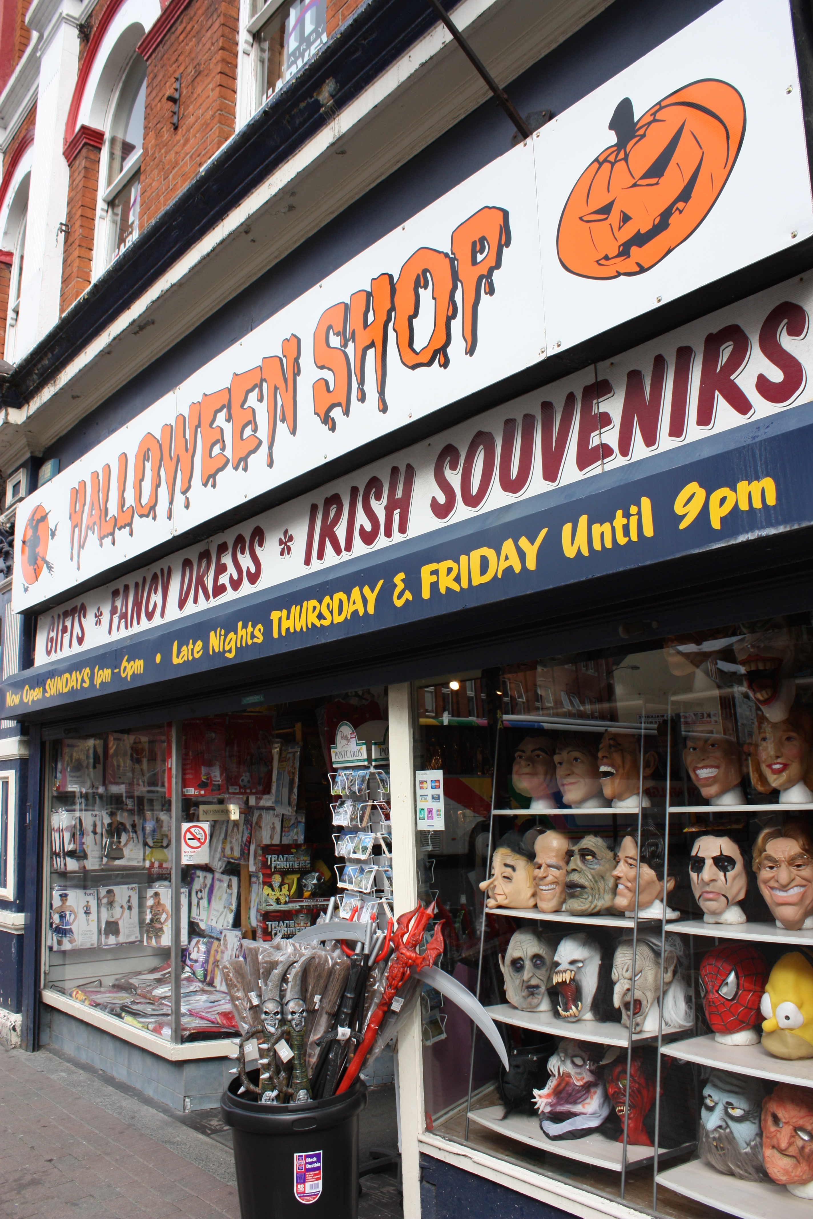 Halloween Shop, Waterloo Place, Derry, County Londonderry, Northern Ireland, September 2010